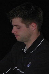 Busch Saturday - Hendrick Motorsports new drivers for the 2005 #5 Busch car: Blake Feese and Boston Reid (NASCAR drivers)